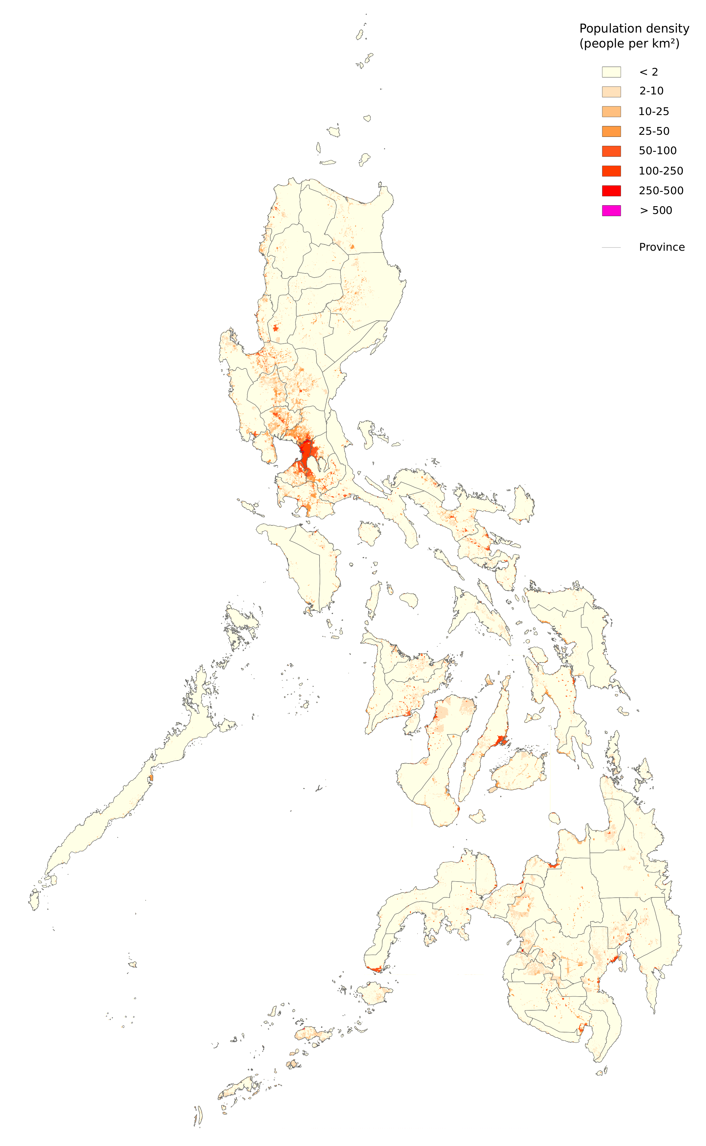 Estimated population density in the Philippines in 2010 (2007 census and projection). Projection : WGS 84. Edit: the map might not be fully accurate concerning the exact density due to the method used (see source below), but population distribution is most probably correct.